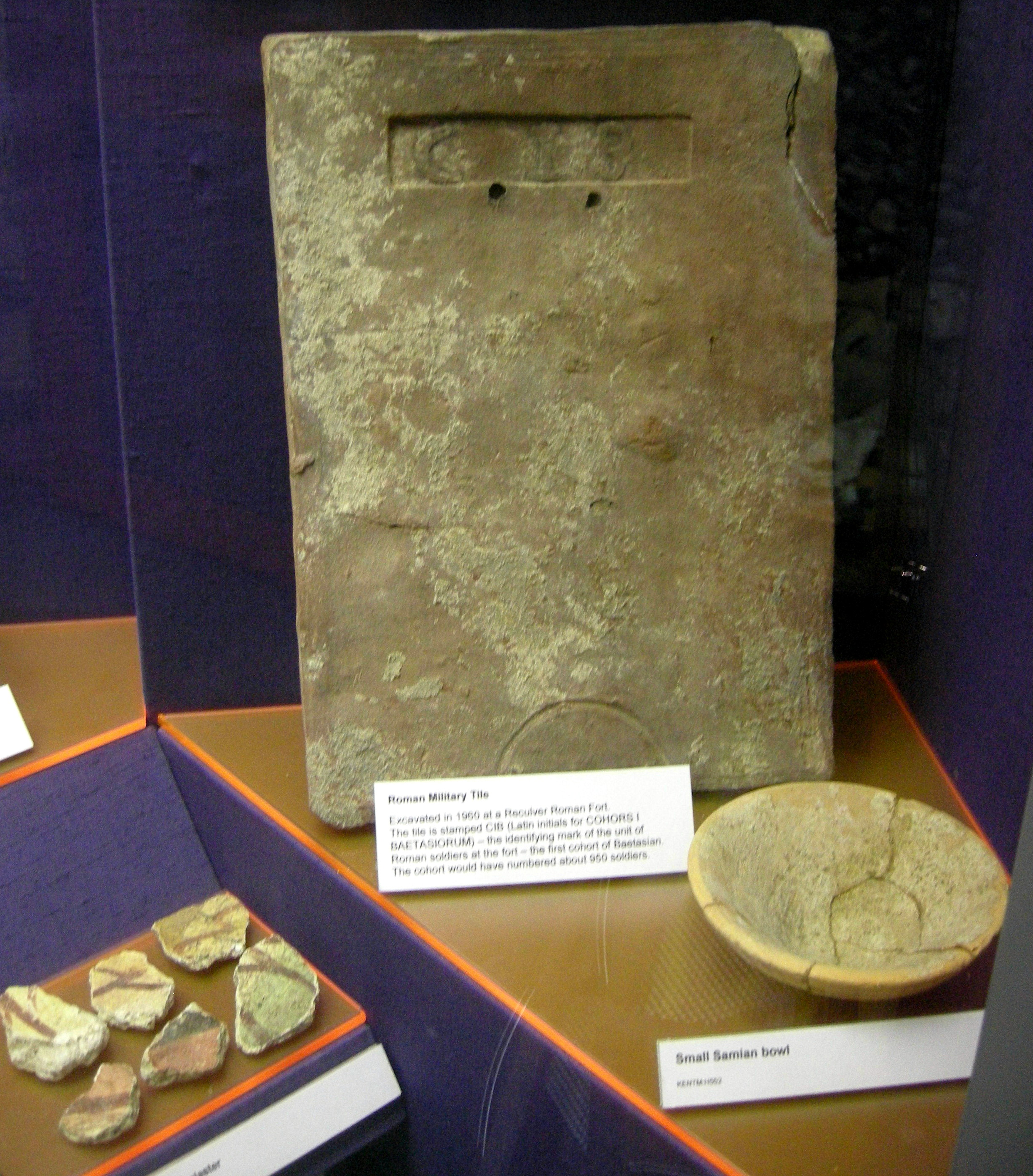 Herne Bay Museum, Herne Bay, Kent. Roman military tile, and Samian ware bowl, found locally.